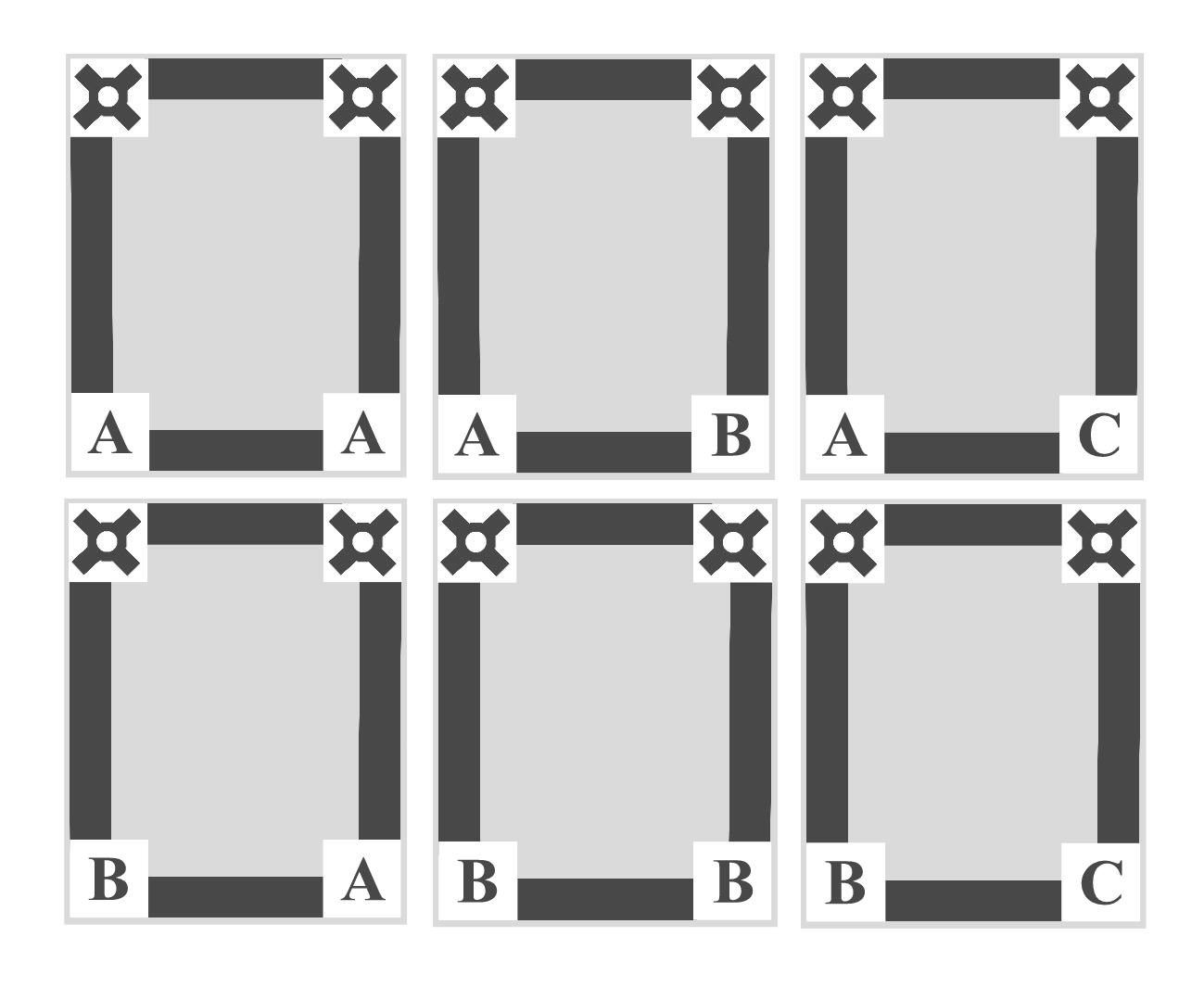 Diagram of corner letters found in old postage stamps.